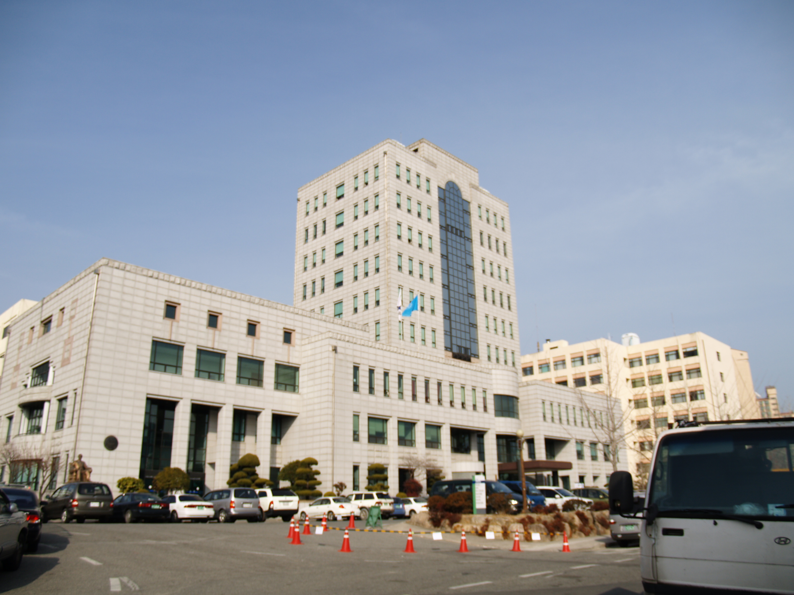 administration building of Pusan National University